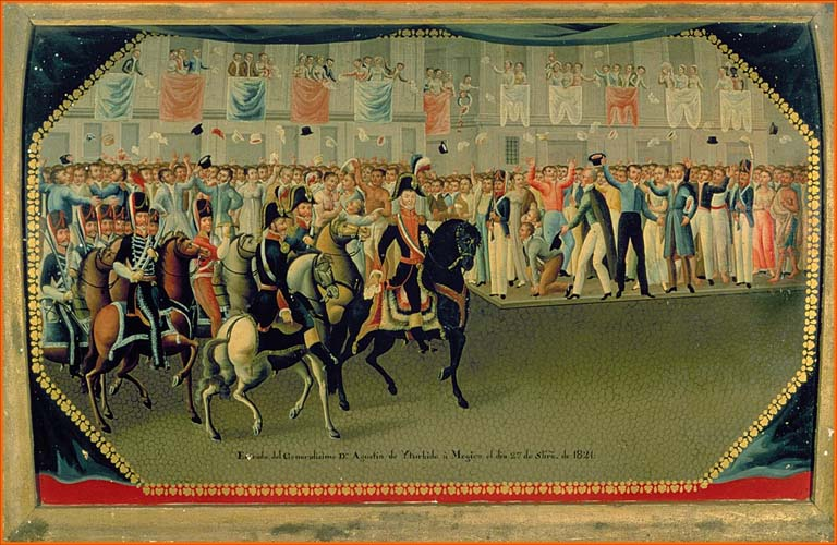 Agustin de Iturbide entrance to Mexico City on 27 September 1821